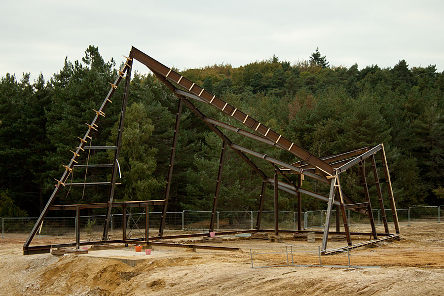 This is the steel structure used to create the cable car station, used in the second Johnny English film Johnny English Reborn. It was built in a clearing in the woodland near to Hawley Lake